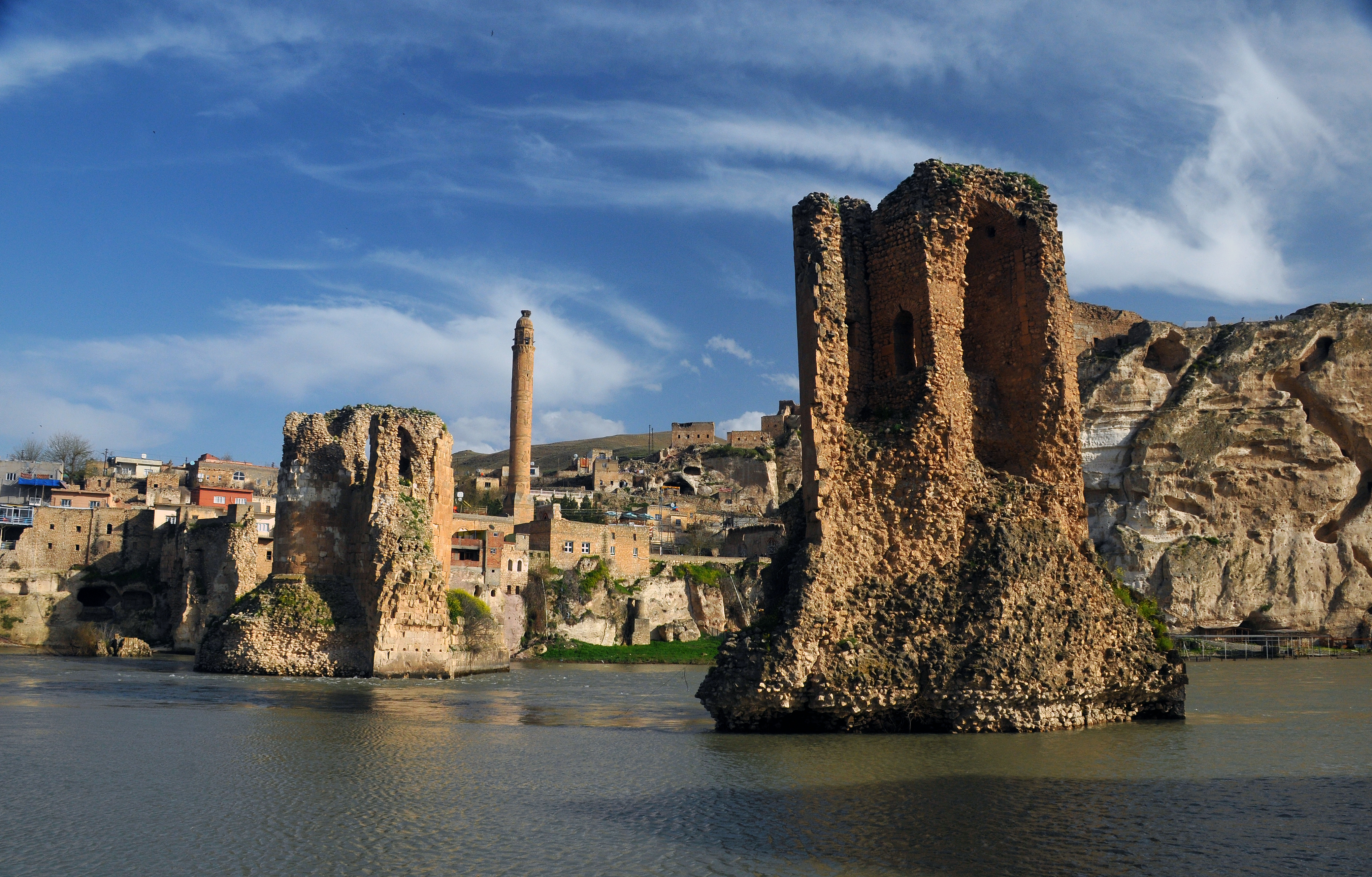 Hasankeyf